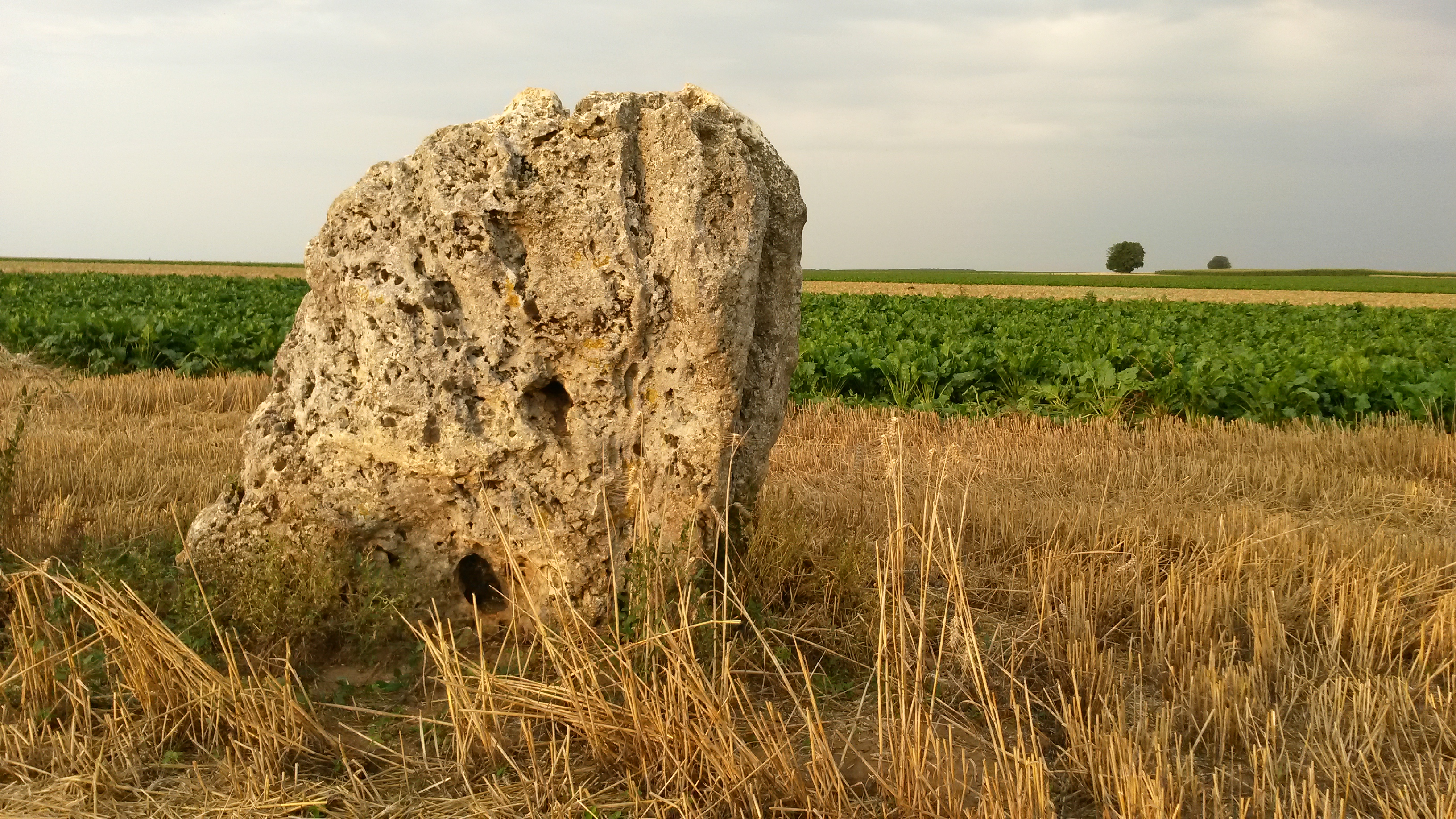 Einselthum, the "Lange Stein", a Menhir. View from West.